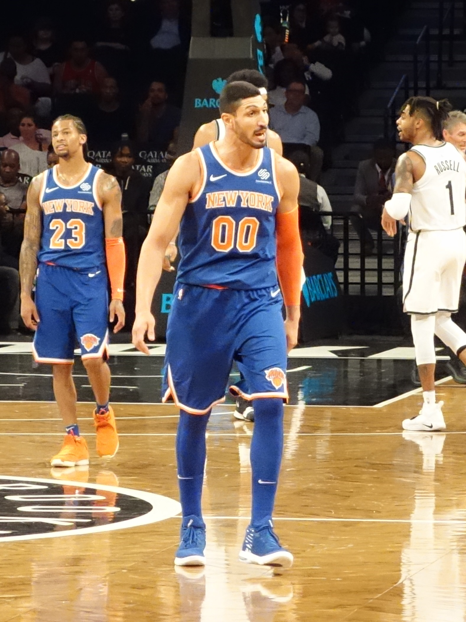 Knicks center Enes Kanter arguing with referee Marat Kogut during the first quarter of the NBA Preseason game between the Brooklyn Nets and the New York Knicks at the Barclays Center on October 3, 2018.